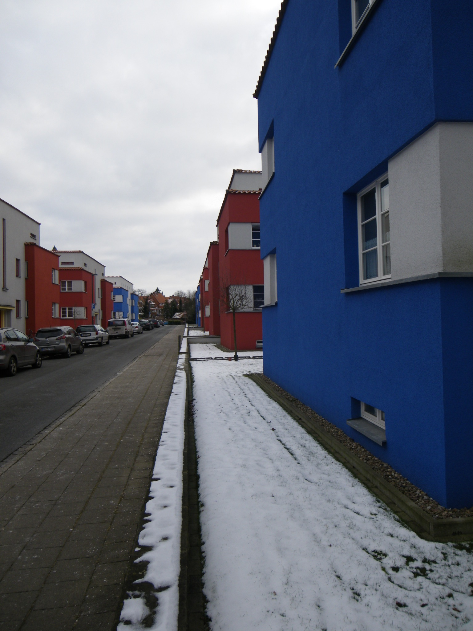 Suburban Colony "Italian Garden" in Celle by Otto Haesler, Architect, 1924/25